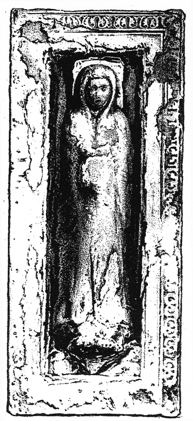 Tombstone of the abbess Agnes I. of Poland in Quedlinburg